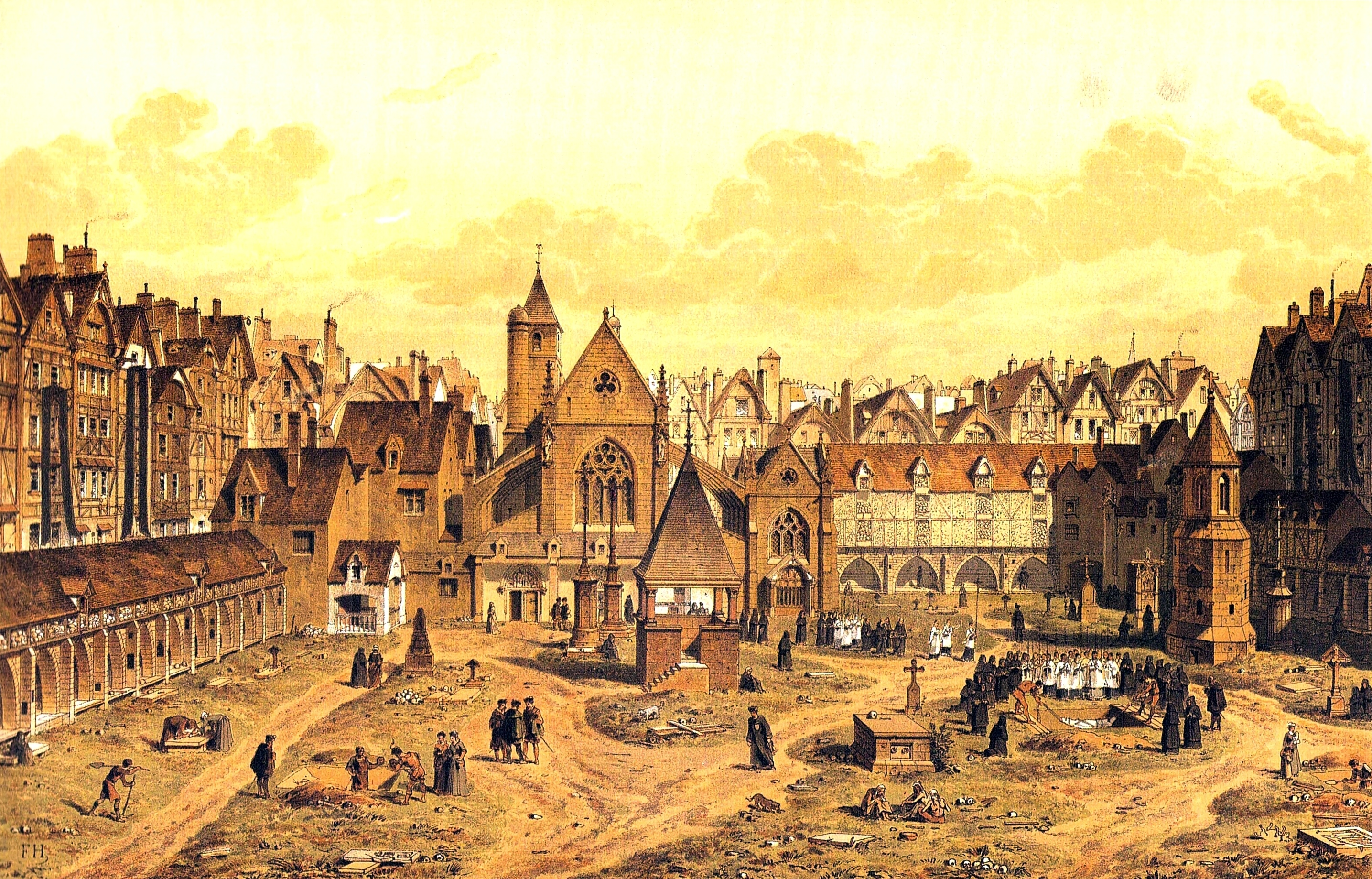 Engraving depicting the Saints Innocents cemetery in Paris, around the year 1550